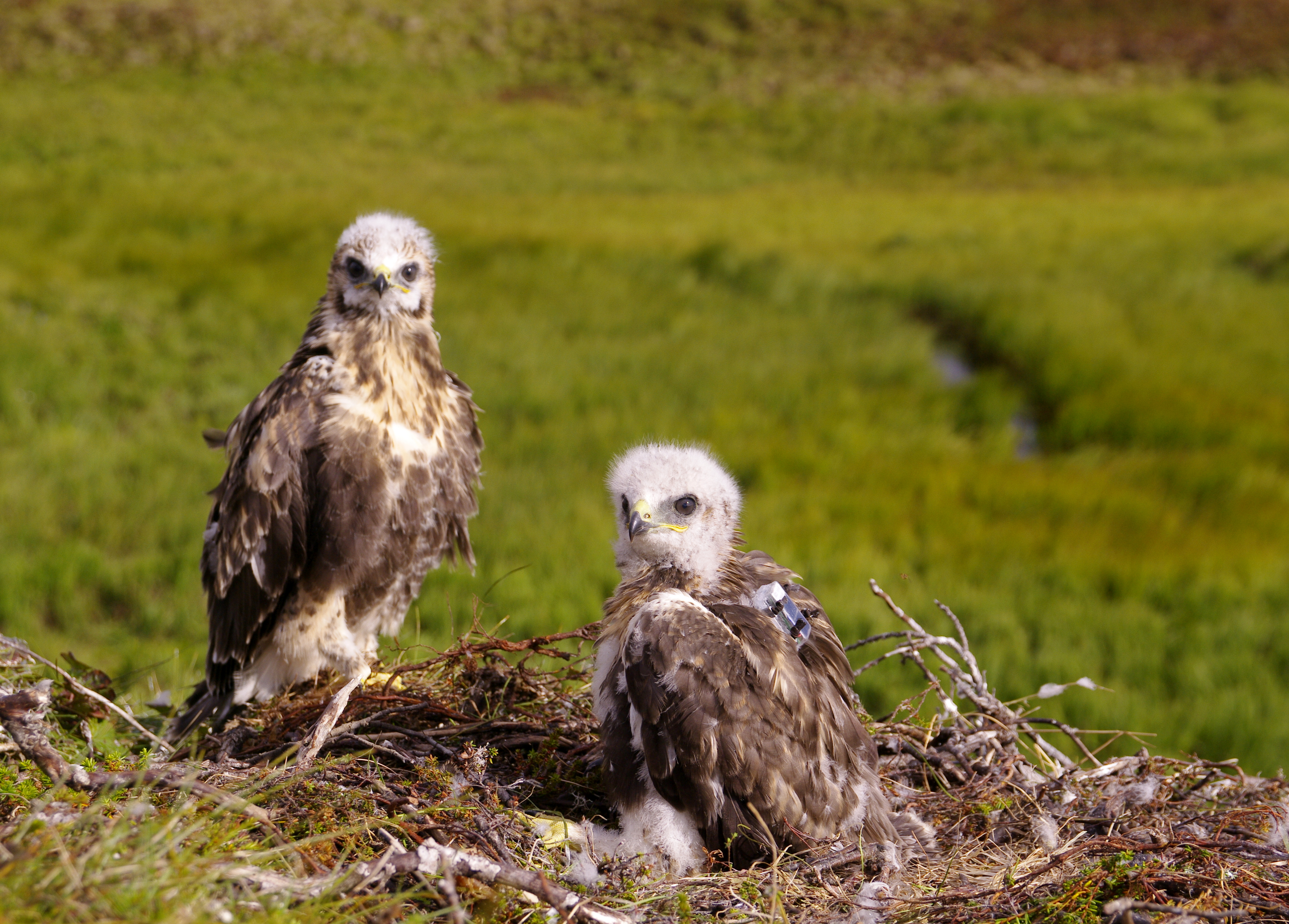 This rough-legged buzzard fledglings were tagged on Kolguyev Island in the Arctic Ocean to study their migration behavior. The study of the tundra species movements is funded by Max Planck Institute for Ornithology (Radolfzell, Germany).